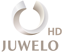 Logo of Juwelo TV HD since November 1st 2013